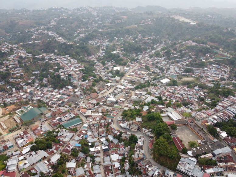 DAYTIME VIEWS OF THE CITY